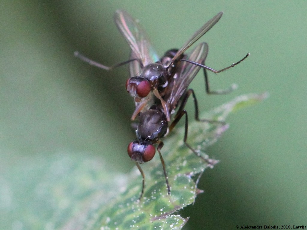 Nemopoda nitidula